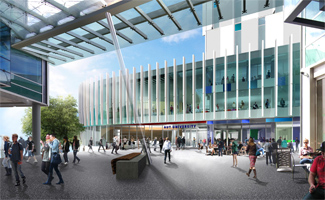 Sketch of WG Atrium Building currently being developed at Auckland University of Technology city campus in Auckland, New Zealand